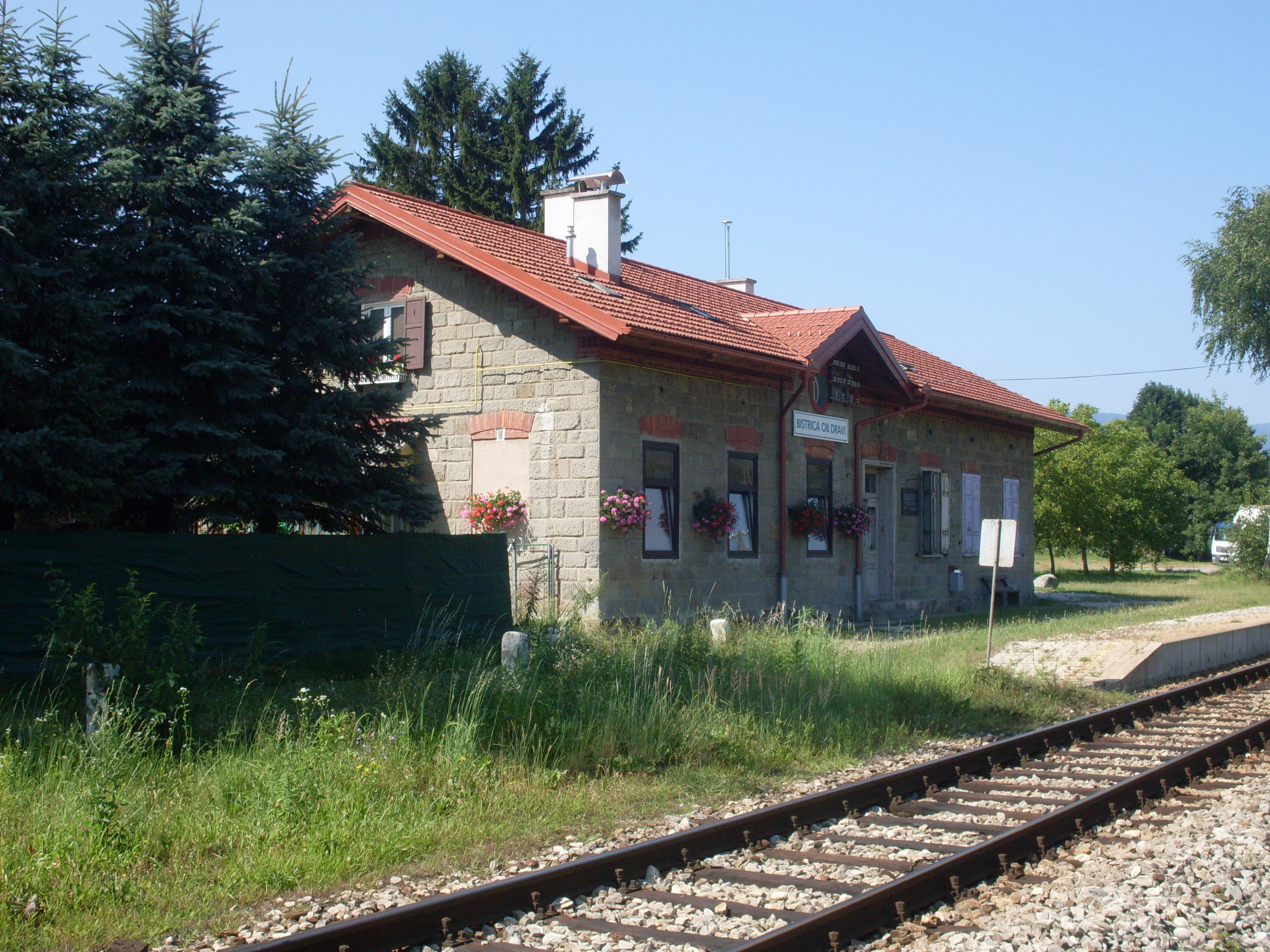 Railway halt in Bistrica ob DraviSlovenščina: Železniško postajališče Bistrica ob Dravi